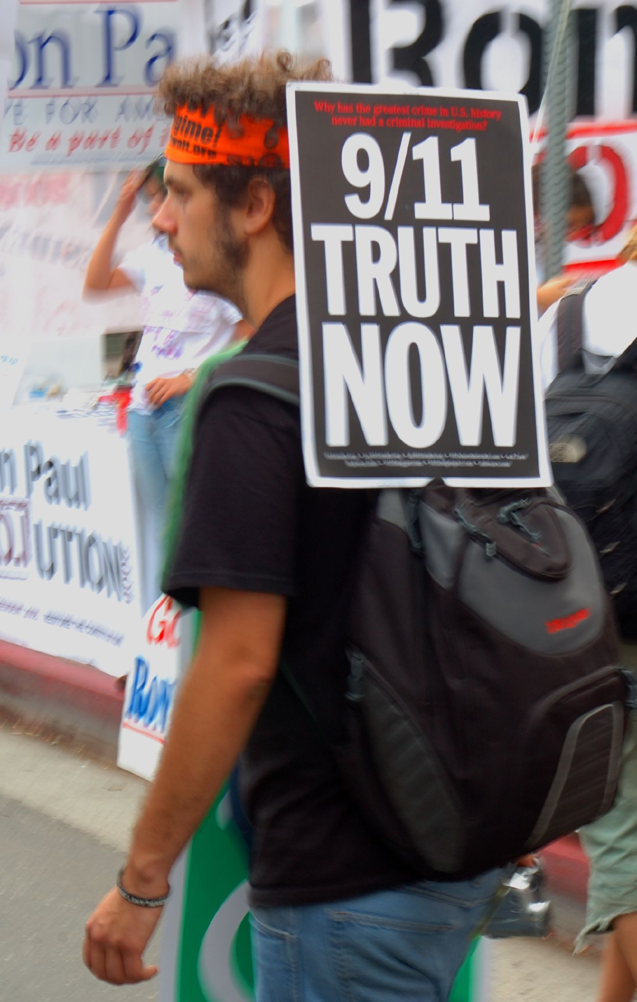 9/11 Truth Movement demonstrator, Los Angeles.